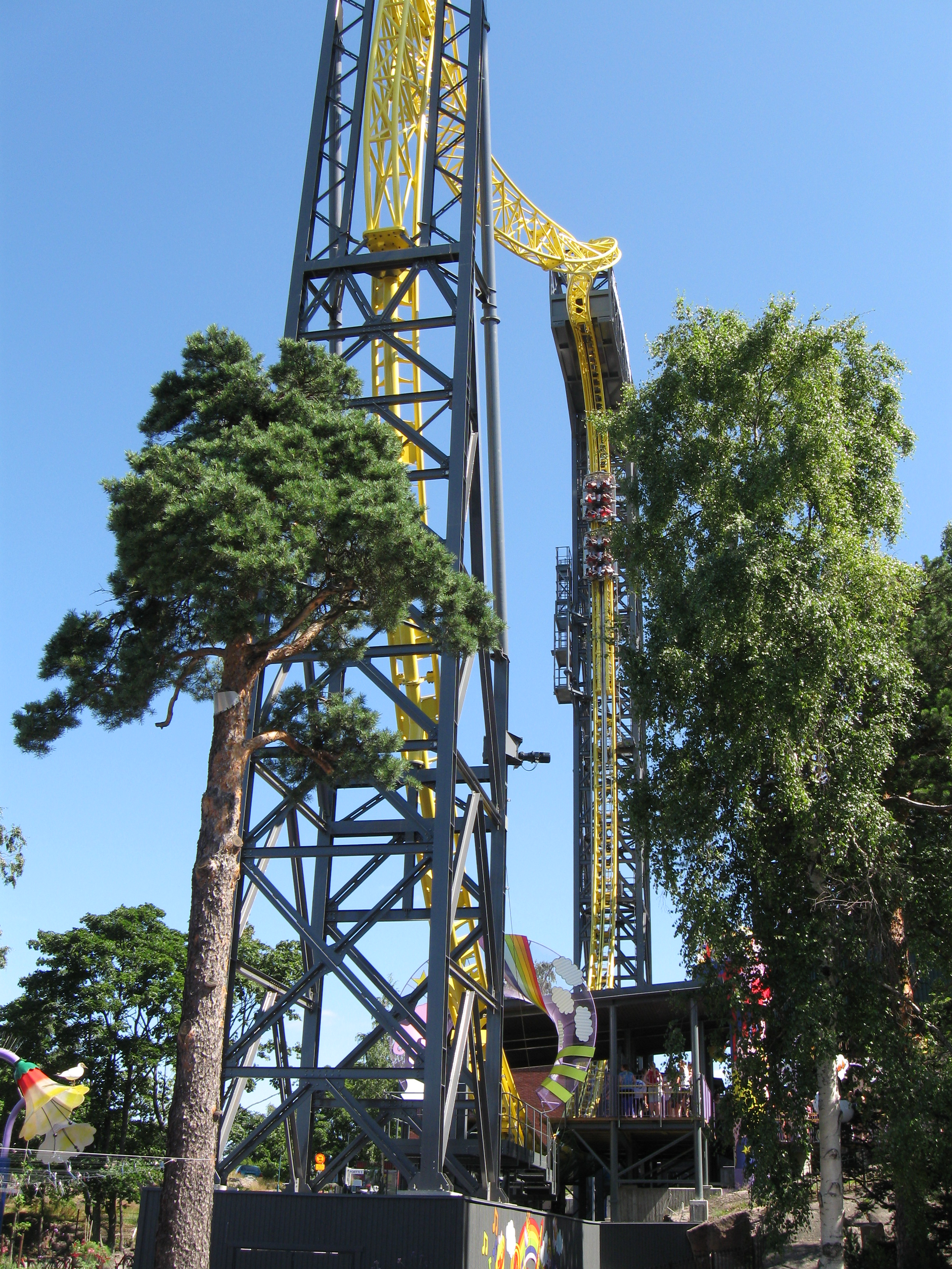 The steel-made rollercoaster "Ukko" at Linnanmäki, Helsinki, Finland.